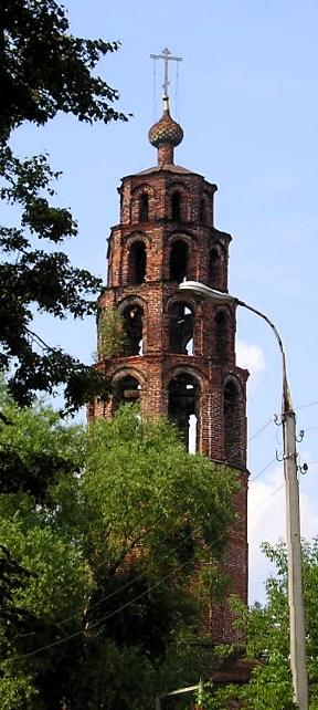 The belfry of the Nicetas parish in Yaroslavl (ca. 1700)